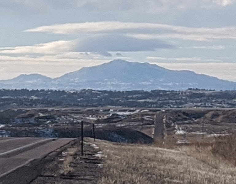 Laramie Peak viewed from U.S. Route 26, 40 miles East of the peak